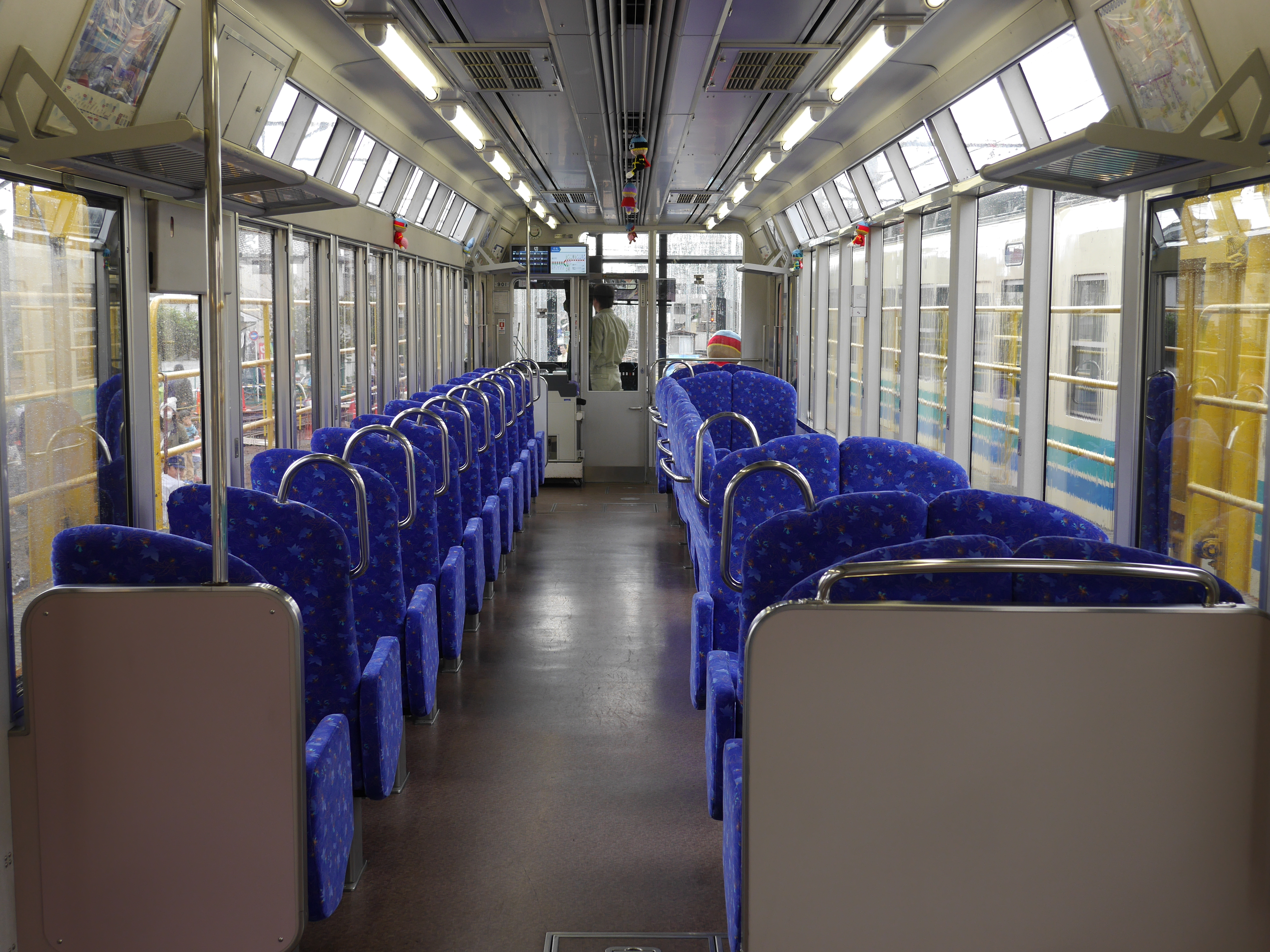 Inside Eiden DEO 901 driving motor car at Shugakuin Depot after the change of seat textures